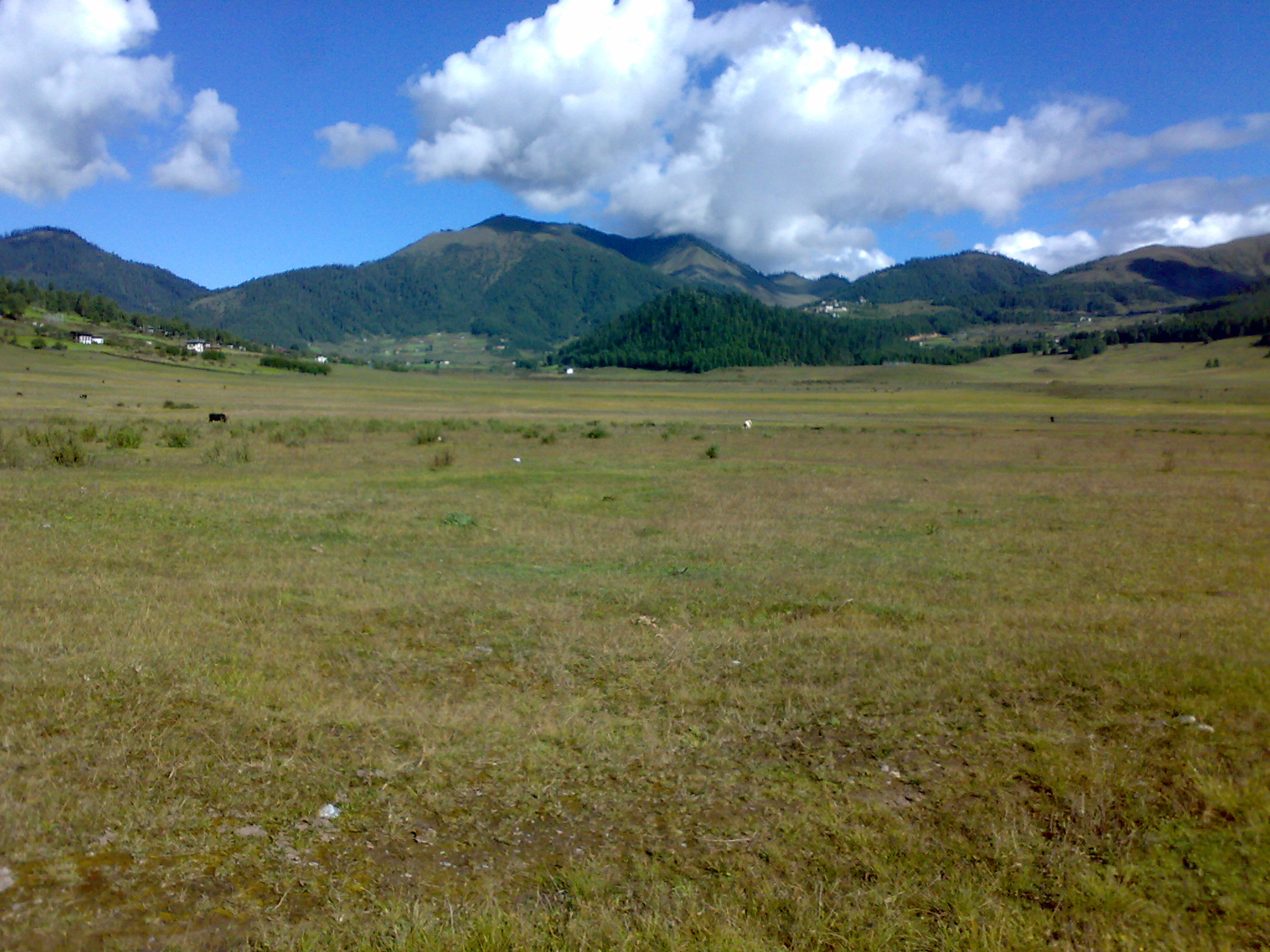 The Beautiful Phobjikha Valley in Autumn